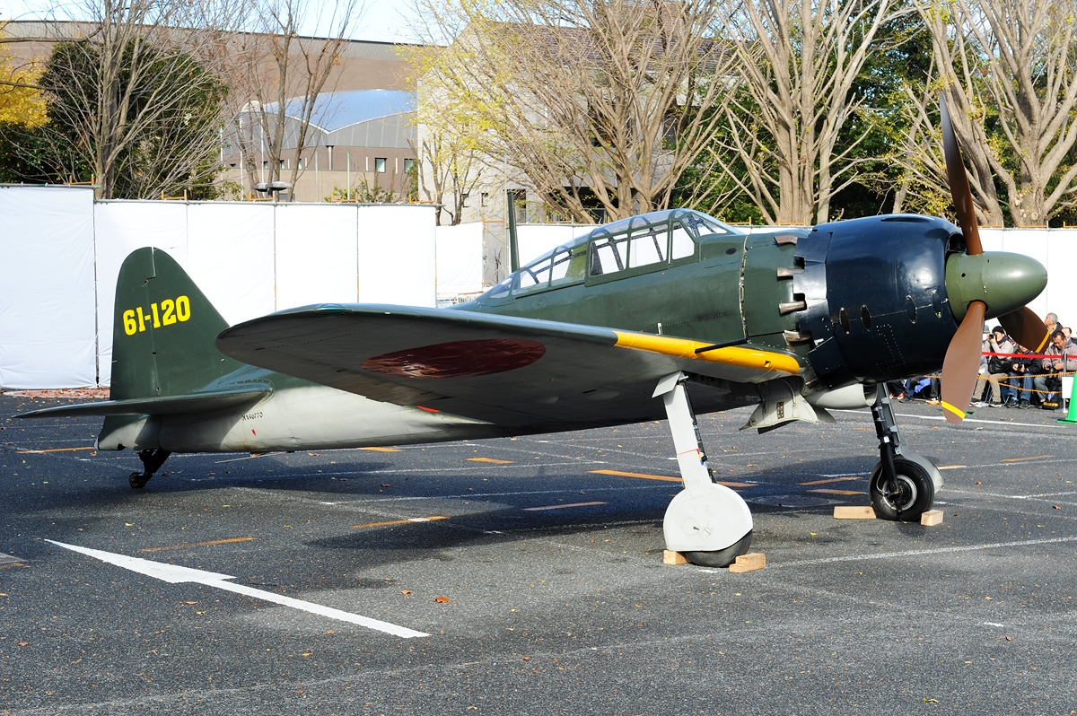 At the Aviation Memorial Park is the only one original "Zero" on static display in Japan. From The Planes of Fame Air Museum (USA-California, Chino).